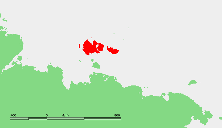 location map